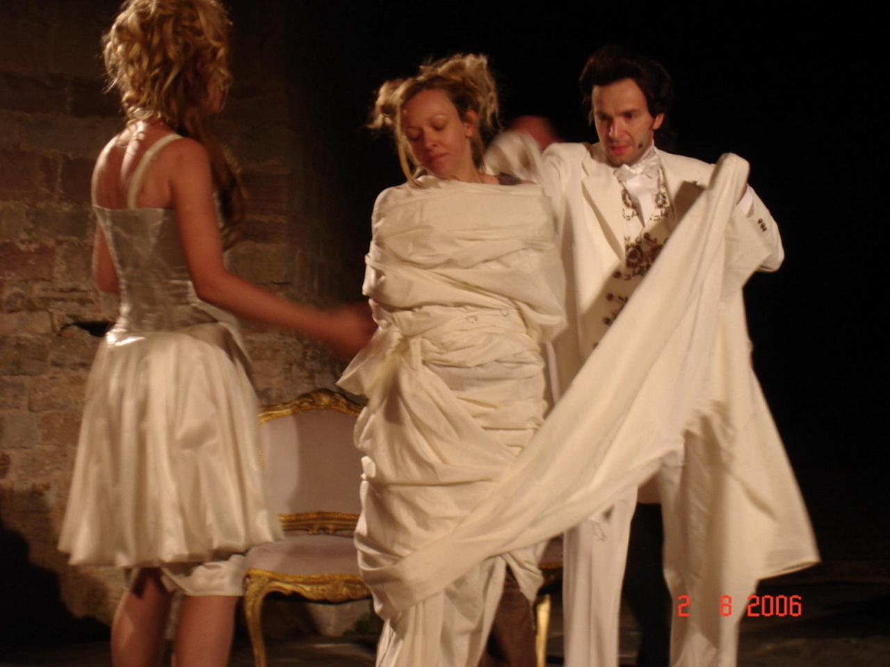 "Skočiđevojka", drama written by Maja Pelević according to the motives of the story written by Stjepan Mitrov Ljubiša, directed by Kokan Mladenović, SNP Drama, Novi Sad and City Theater, Budva, 2007/08, Draginja Voganjac, Nataša Tapušković, Jugoslav Krajnov Srpski (latinica): "Skočiđevojka", drama Maje Pelević prema motivima pripovetke Stjepan Mitrov Ljubiše, u režiji Kokana Mladenovića, Drama SNP, Novi Sad & Grad teatar, Budva, 2007/08, Draginja Voganjac, Nataša Tapušković, Jugoslav Krajnov Српски (ћирилица): "Скочиђевојка", драма Маје Пелевић према мотивима приповетке Стјепан Митров Љубише, у режији Кокана Младеновића, Драма СНП, Нови Сад и Град театар, Будва, 2007/08, Драгиња Вогањац, Наташа Тапушковић, Југослав Крајнов